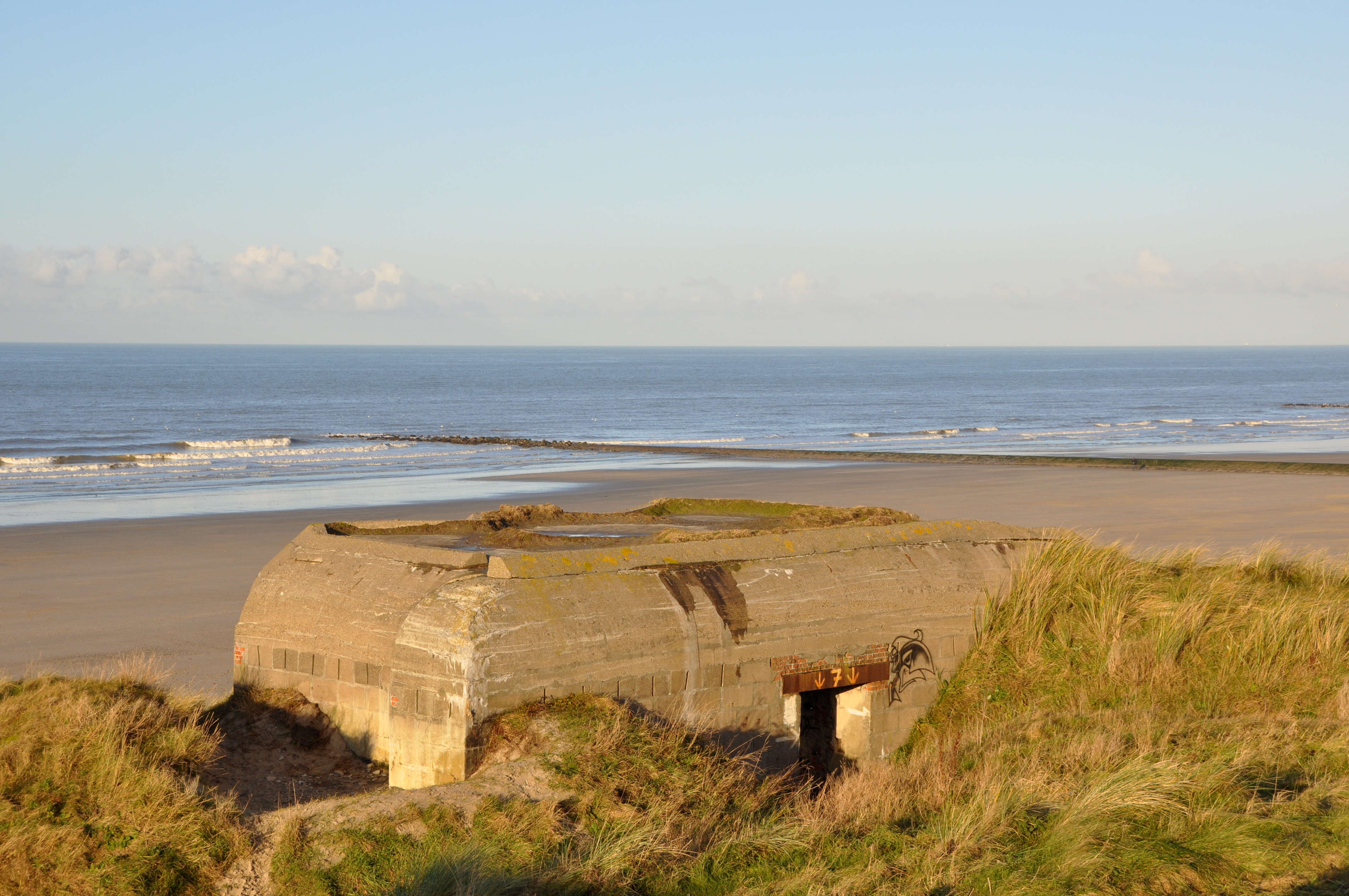 Ostend (Belgium): German pill-box from the Second World War; part of the Atlantikwall